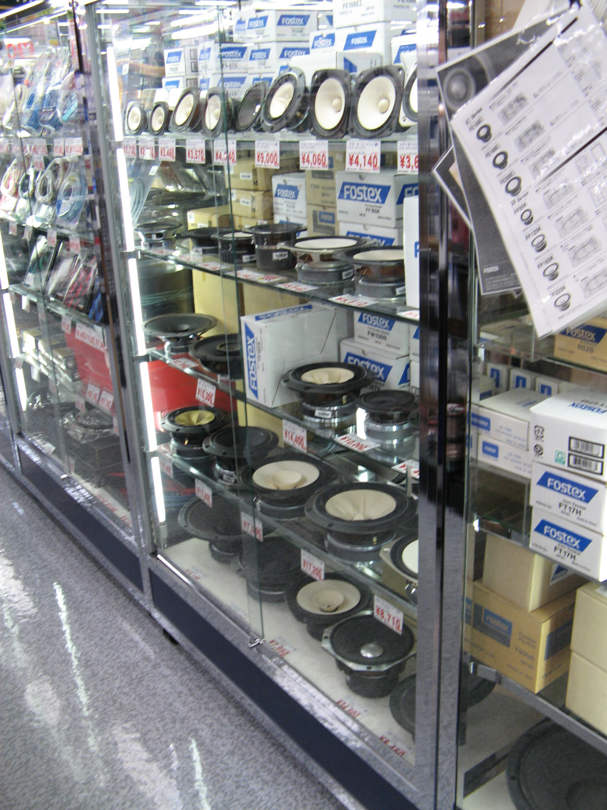 I'm not familiar with Fostex, specifically, but this is definitely the most DIY audio equipment I've ever seen outside of specialty shops (which are rare as is).